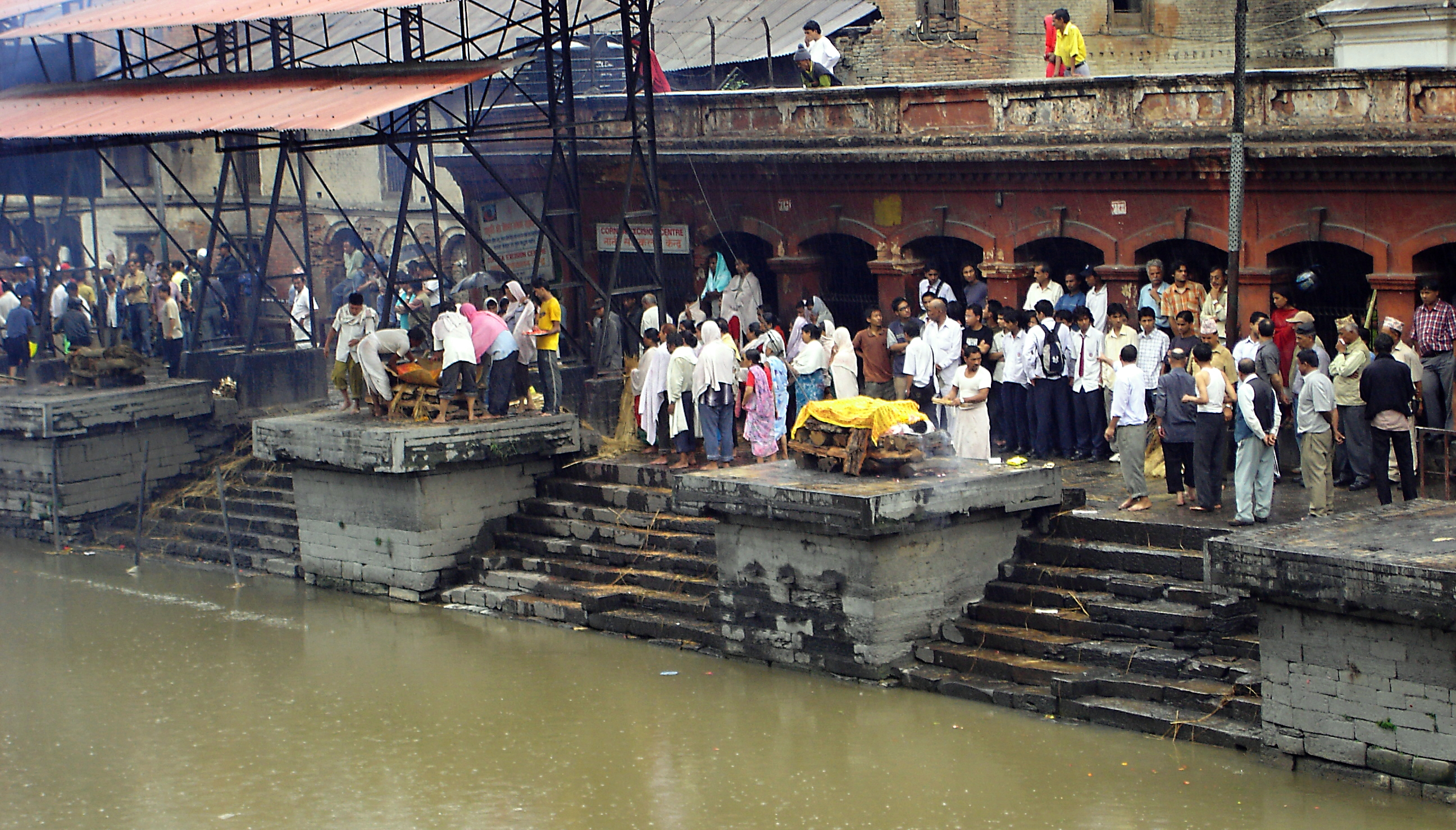 Cremation ghat on the banks of the Bagmati River in the Pashupatinath temple (Kathmandu, Nepal).